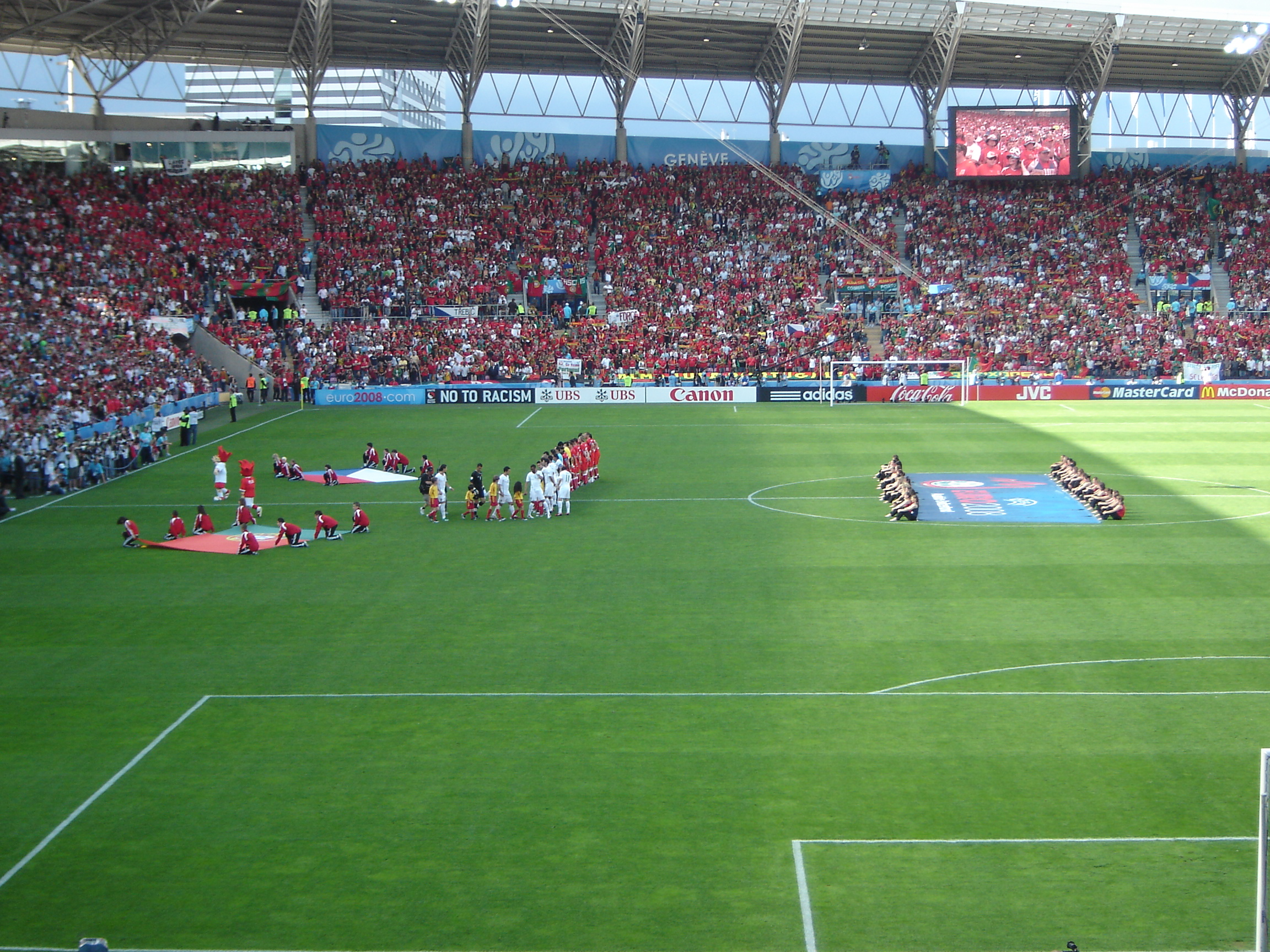 Players’ entrance before the match between the Czech Republic and Portugal on Euro 2008